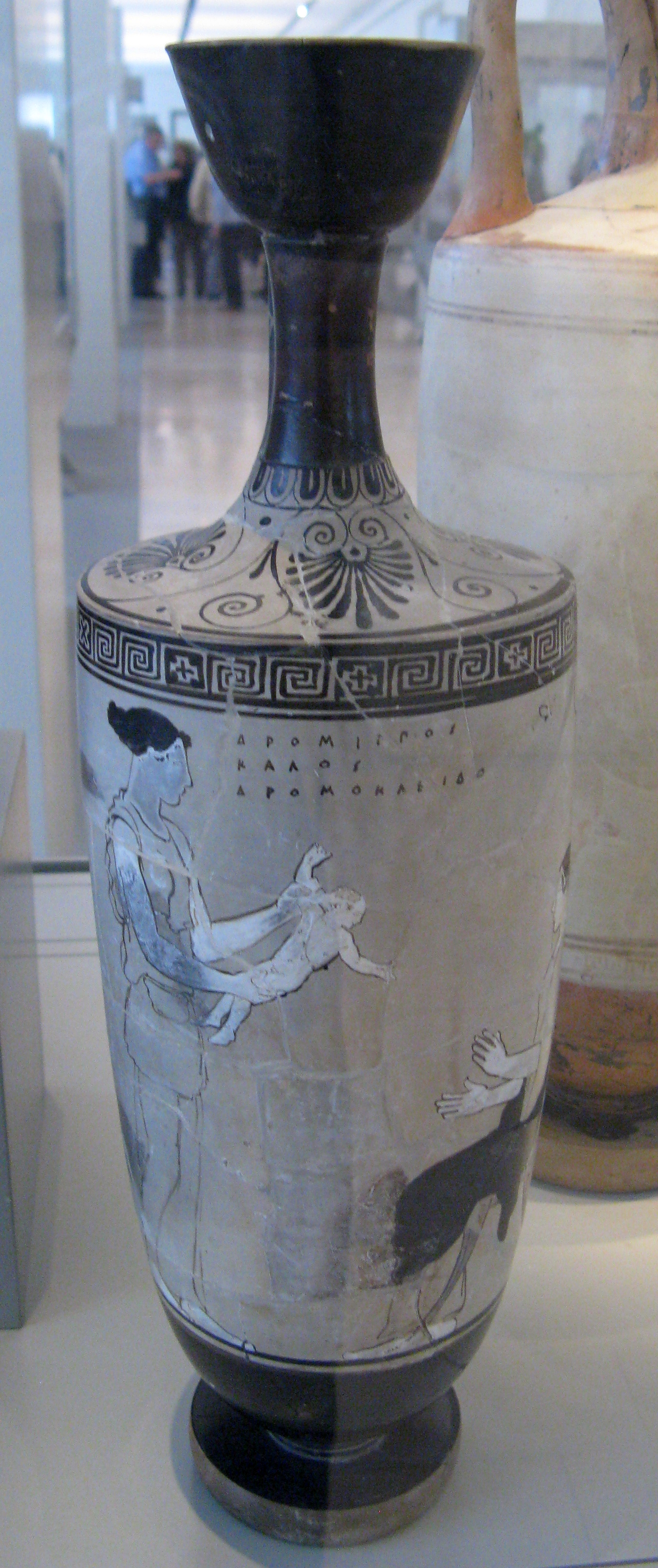 Attic white-ground Lekythos by the Achilleus Peinter (attributed by John V. Luce). Scene in the women's apartment: Woman (? Servant) gives a wife (deceased?) their little son in the raised arms. Representation unclear, in research different views of the scene; possible: scene during the wedding (bride receives pais amphitales ) or scene in the women's apartment, with the woman standing as a servant would not necessarily be recognized or an allegorical scene on this for the cult of the dead certain vase in which a deceased woman gets her without his mother nonviable child handed over; Kalos inscription. About 460/50 BC.; 36,9 cm high; found in Pikrodafni. Antikensammlung Berlin in Altes Museum, Ascnr. F 2443; CVA Germany 62/Berlin 8, Tafel 9,3-5 und 10,1; ARV 1 640,94; ARV 2 995,118; Para 438; Addenda 1 152; Addenda 2 312.